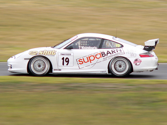 2006 Australian GT Championship season Porsche GT3 Cup race car number 19 driven by Theo Koundouris during Round 5 at Mallala Motor Sport Park